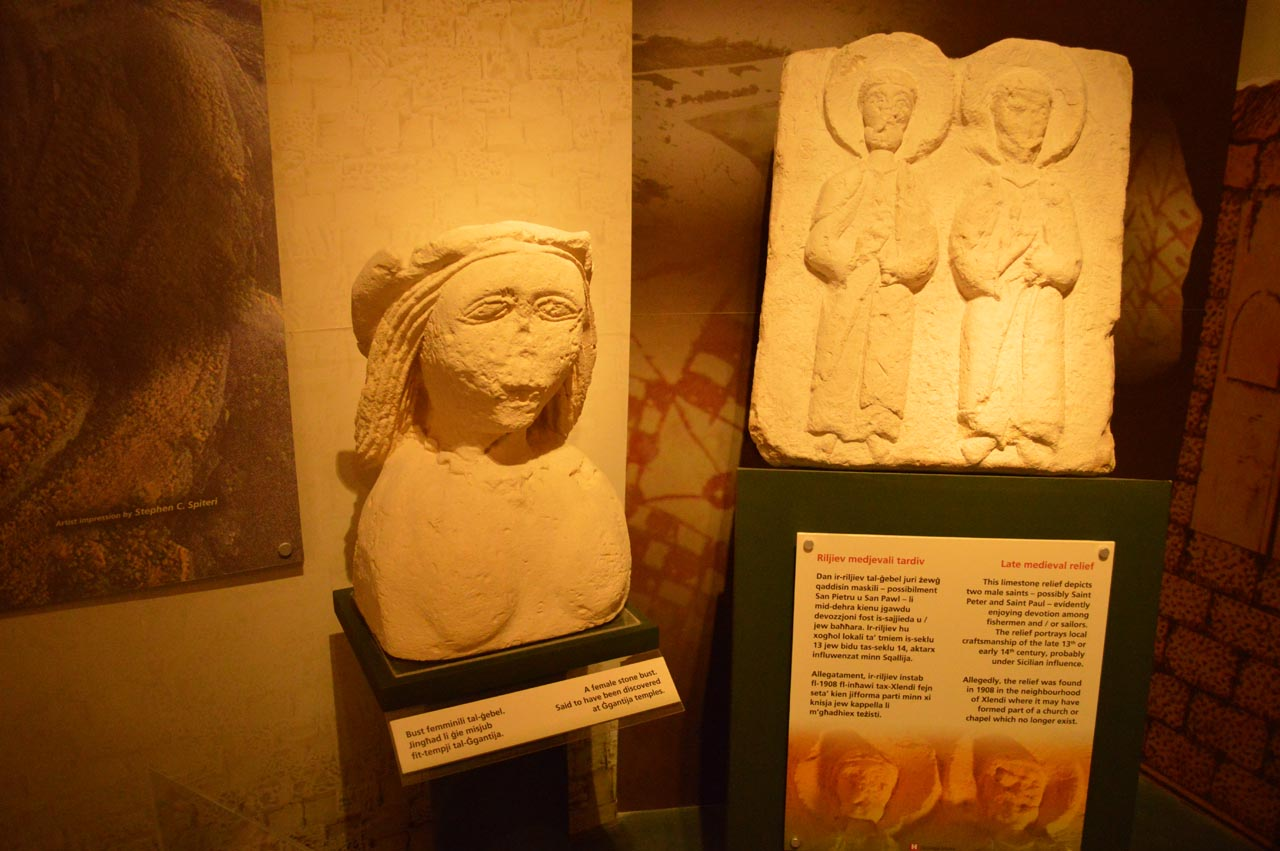 Archaeology Museum This media is about Maltese cultural property with inventory number 01244.